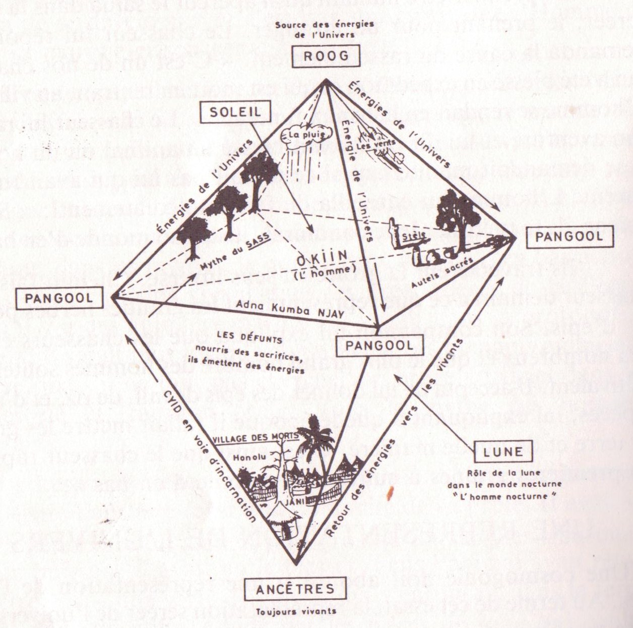 This image represents the cosmogony of the Serer people found in Senegal, the Gambia and Mauritania. It depicts their representation of the Universe rooted in Serer religion and Cosmogony. Adapted from Henry Gravrand, "LA CIVILISATION SEREER", "Pangool", volume 2. Les Nouvelles Edition Africaines du Senegal, (1990) , page 216, ISBN 2-7236-1055-1. It depicts the tree worlds : the invisible world, the terrestrial world and the nocturnal world.